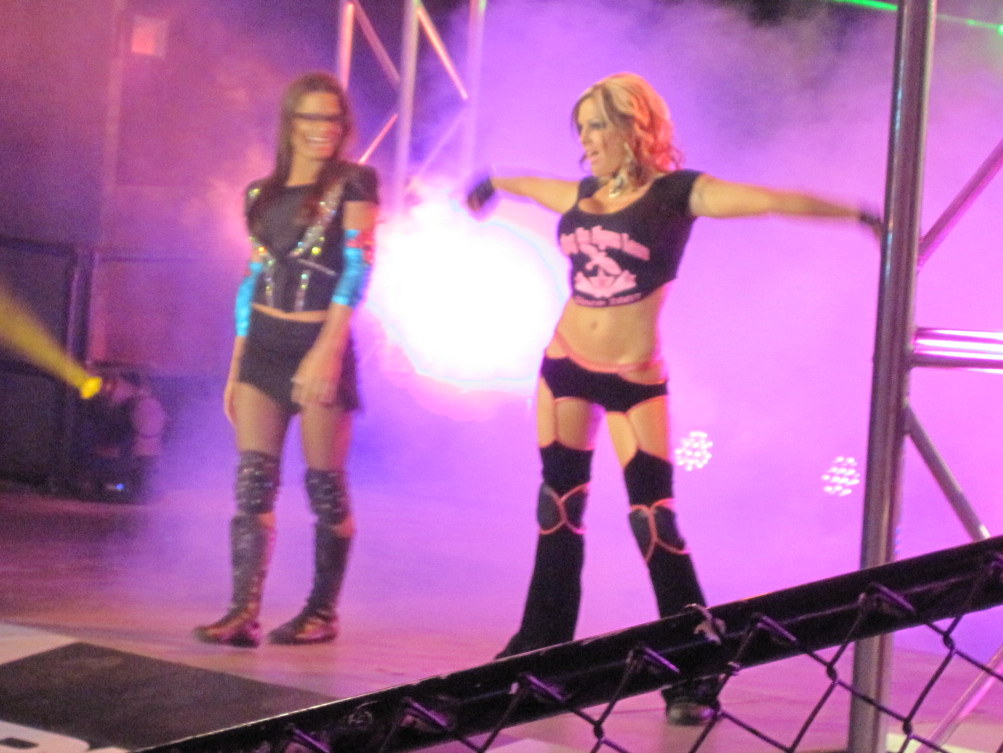 Impact Wrestling Taping. Monday, June 13, 2011 to air Thursday, June 16, 2011